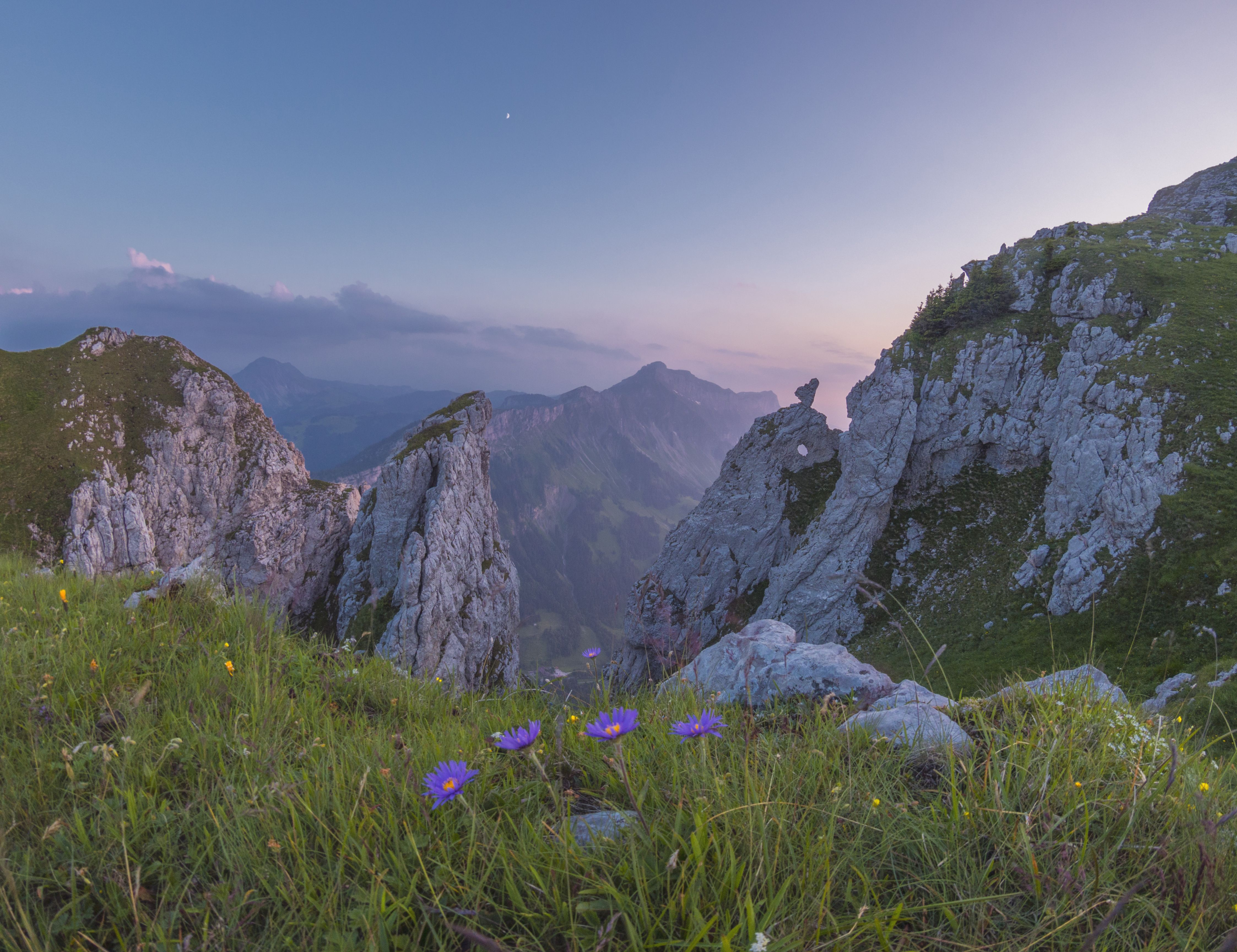 UNESCO Biosphäre Entlebuch